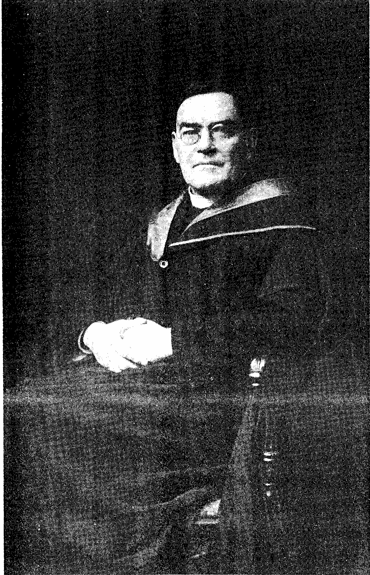 A picture of Percy Henn.